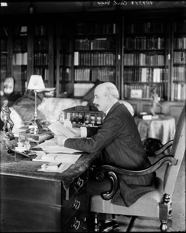 Albert Grey, 4th Earl Grey (1851–1917), Governor-General of Canada in his office at Rideau Hall, Ottawa, Ontario.